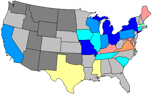 Summary of party change of U.S. house seats in the 1882 House election. Stripes indicate a tie between the gains of two or more parties. Legend: 6+ Democratic seat pickup 3-5 Democratic seat pickup 1-2 Democratic seat pickup 1-2 Republican seat pickup 3-5 Republican seat pickup 6+ Republican seat pickup 1-2 Independent seat pickup 3-5 Readjuster seat pickup 1-2 Greenback seat pickup 3-5 Greenback seat pickup Note: years ending in 2 may have inconsistent results due to redistricting.